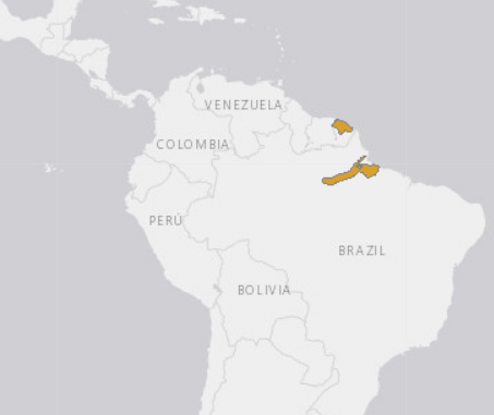 Natural distribution of Eunectes deschauenseei